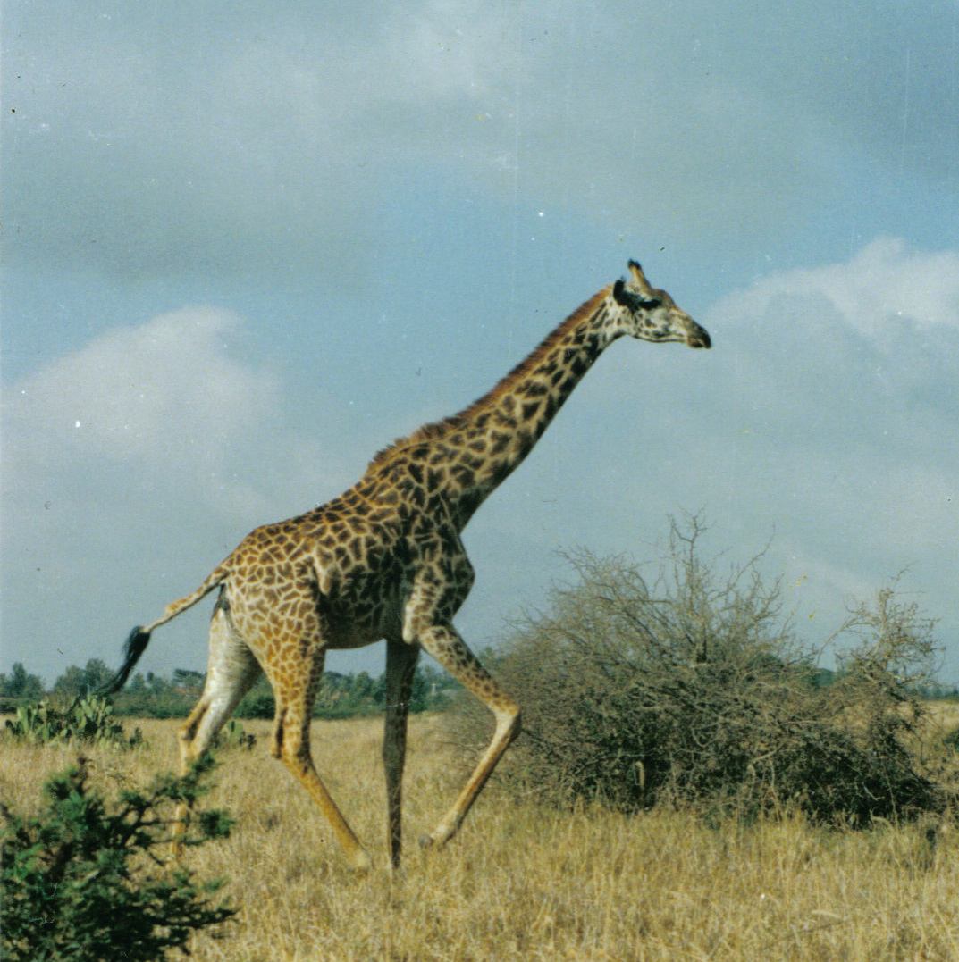 Masai giraffe (Giraffa tippelskirchi) in Nairobi National Park, Kenya